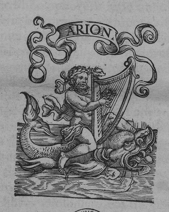 Johannes Oporinus' mark